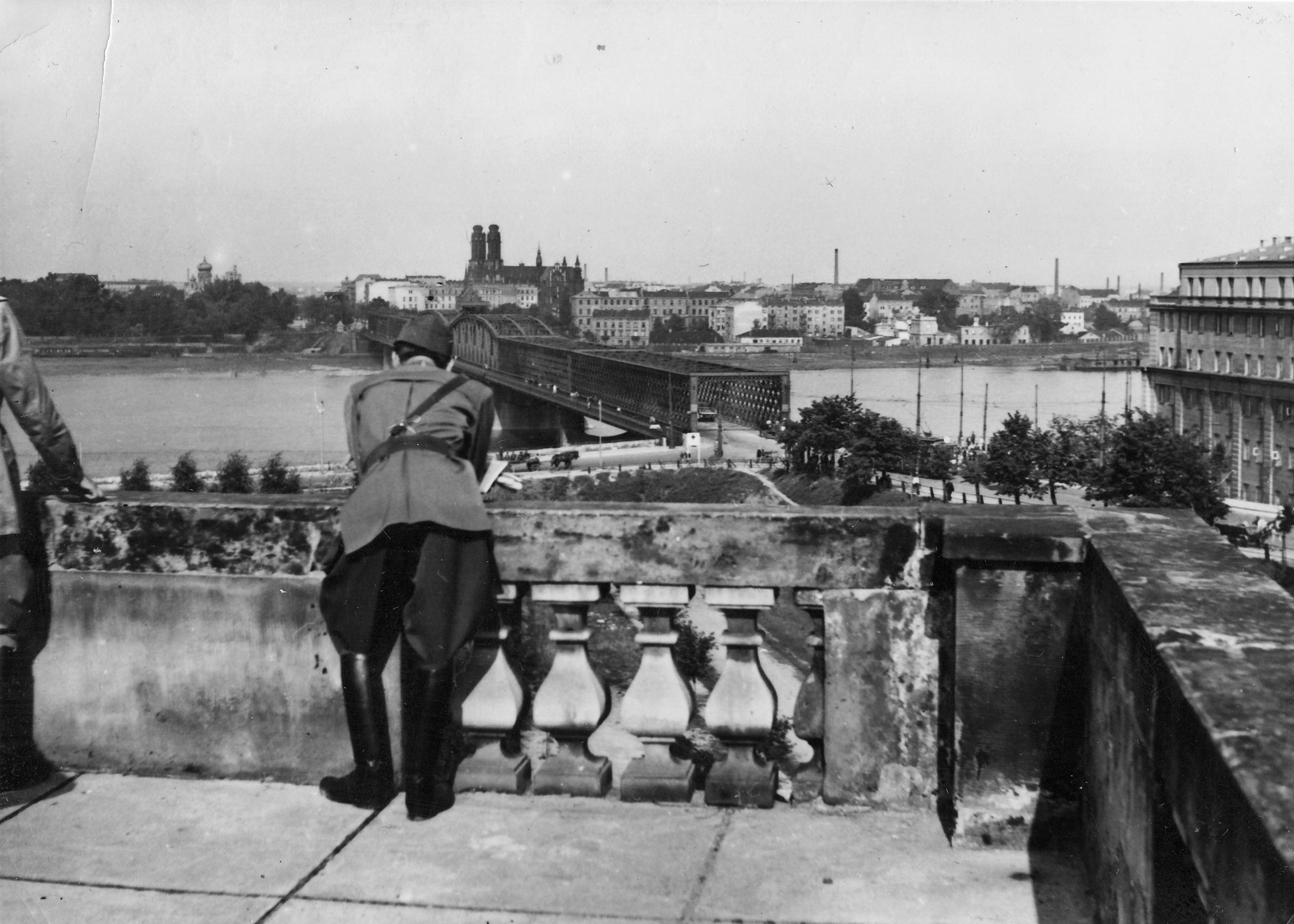 Warsaw during German occupation: Two Germans look at Praga district and Kierbedź bridge from back of Royal Palace in Warsaw.